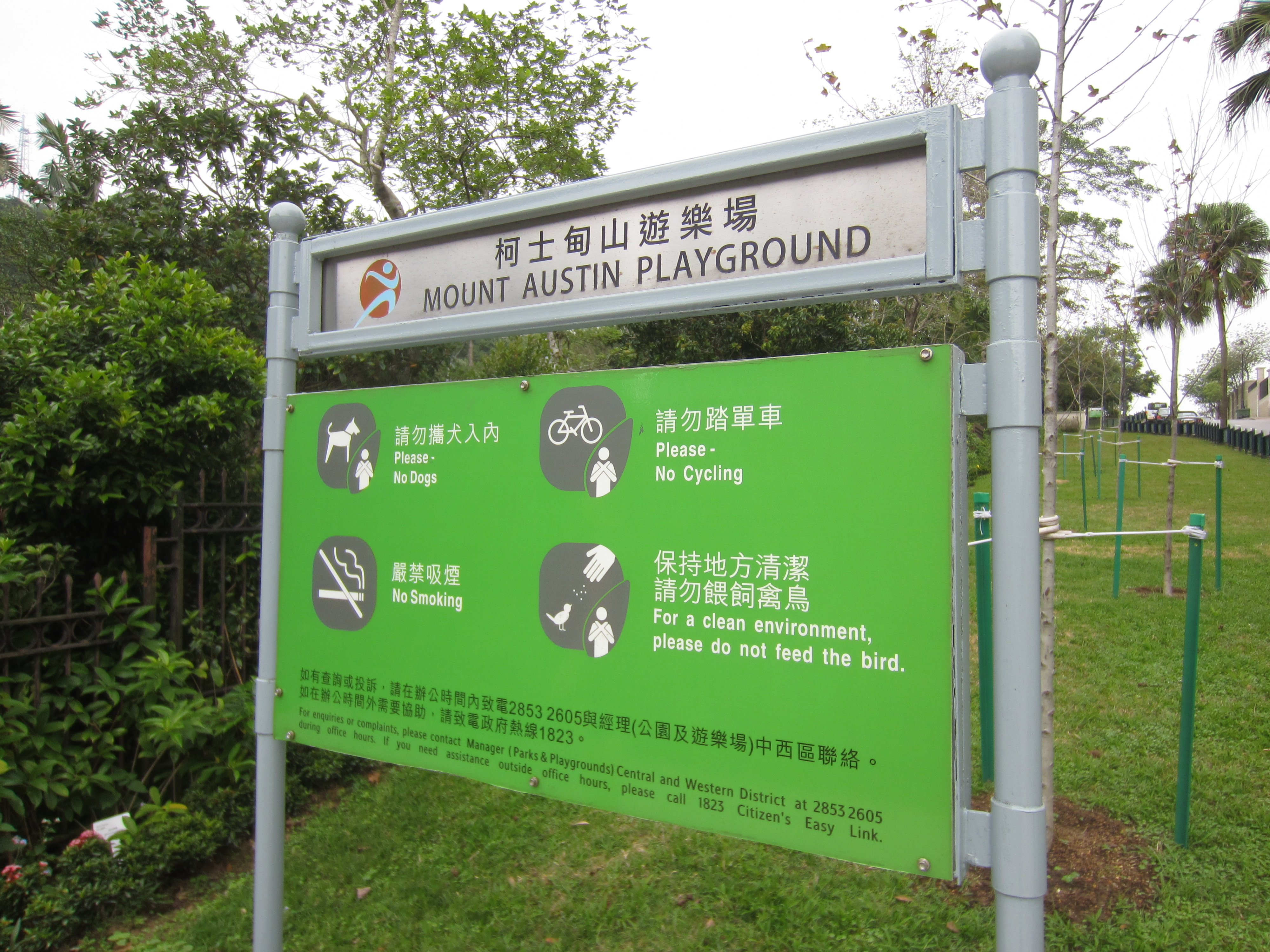 Hong Kong, November 2017